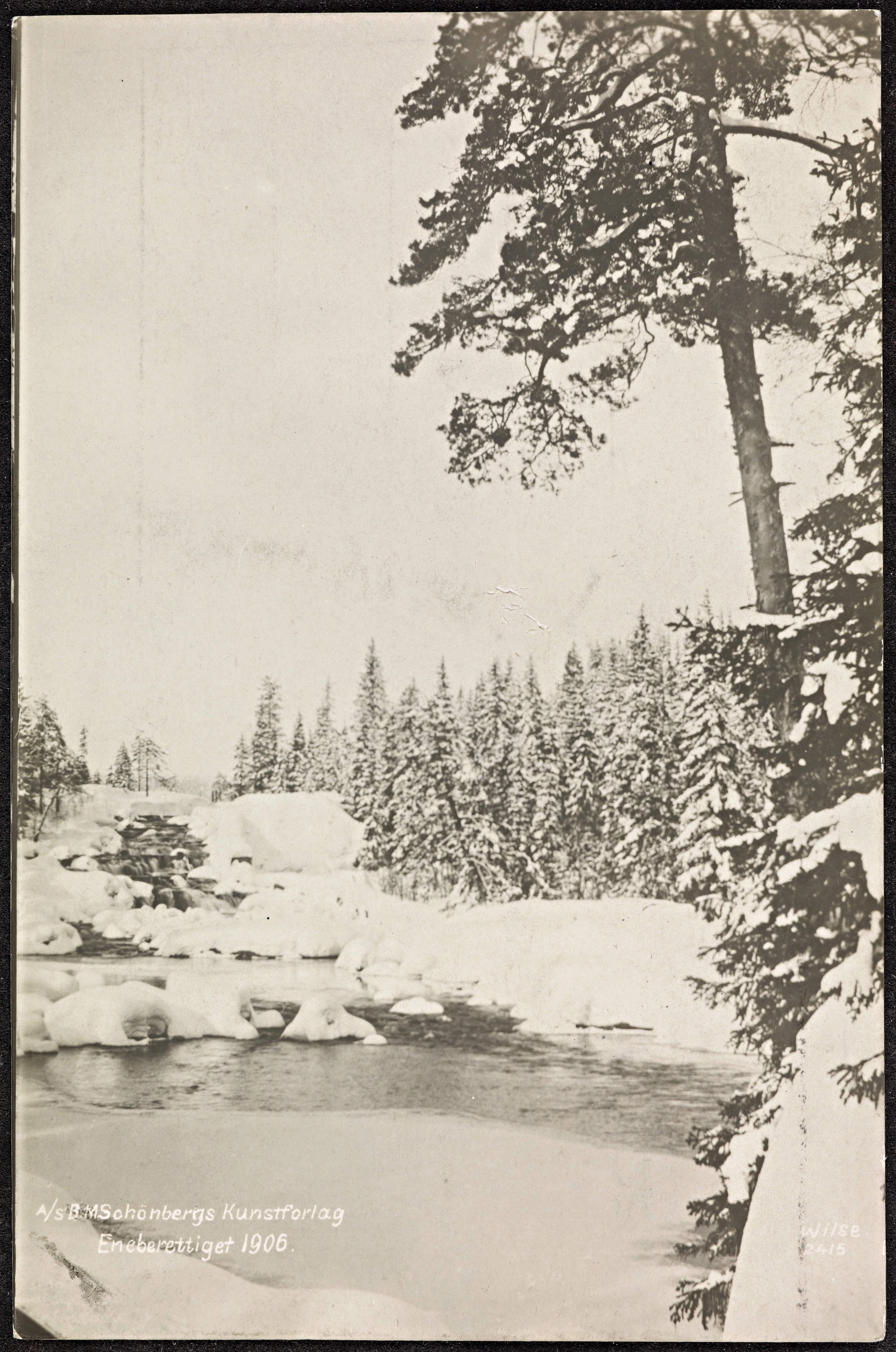 Dato / Date: 1904, postkort utgitt 1906 Sted / Place: Norge, Oslo, Nordmarka, Skjærsjøelva Fotograf / Photographer: Anders Beer Wilse (1865-1949) Utgiver / Publisher: A/S B. M. Schønbergs Kunstforlag Digital kopi av original / Digital copy of original: s/h postkort, sølvgelatin Eier / Owner Institution: Nasjonalbiblioteket / National Library of Norway Lenke / Link: Bildesignatur / Image Number: blds_07157